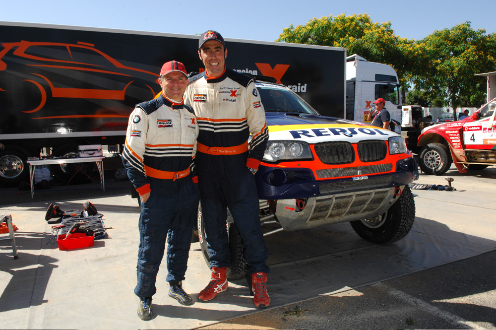 Nani Roma and Michel Perin